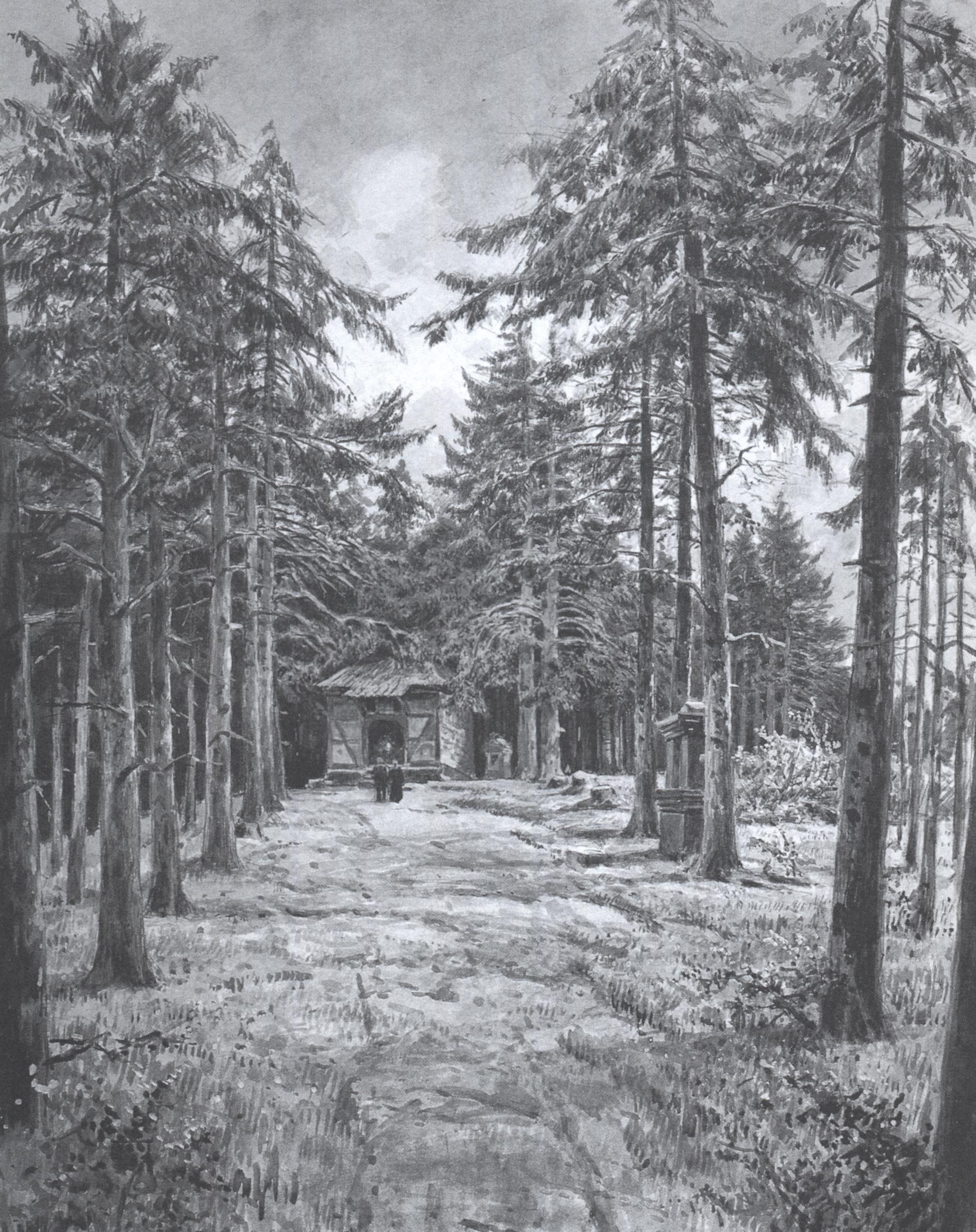 Elisabethhöhe, Orginal by Thomasczek